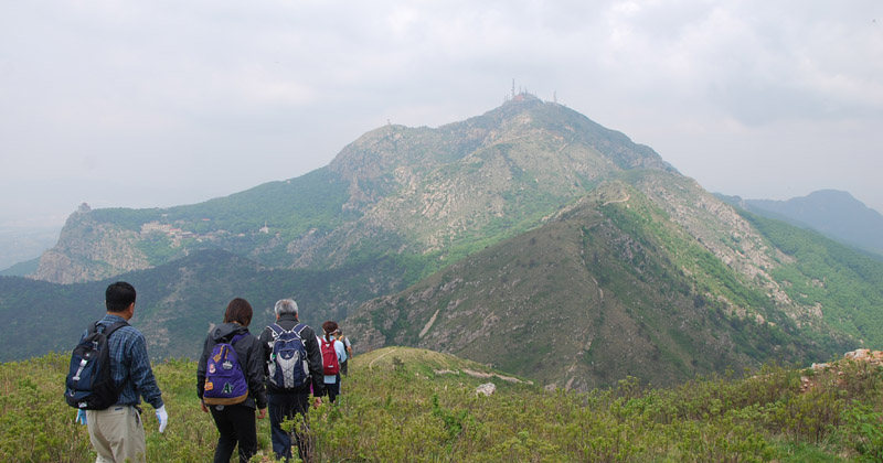 Dahei Mountain 1, Dalian, China